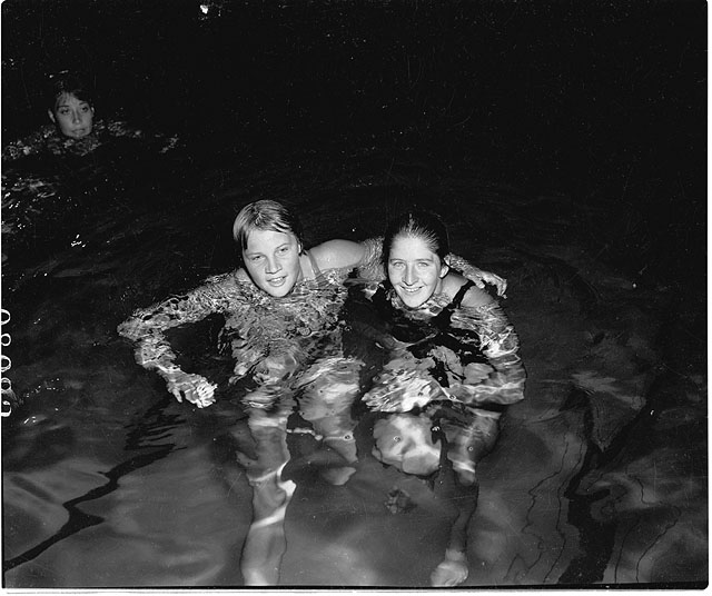 Format: Film photonegative Notes: Find more detailed information about this photograph: .au/staff/item/itemDetailPaged.aspx?itemID... Search for more great images in the State Library's collections: .au/search/SimpleSearch.aspx From the collection of the State Library of New South Wales